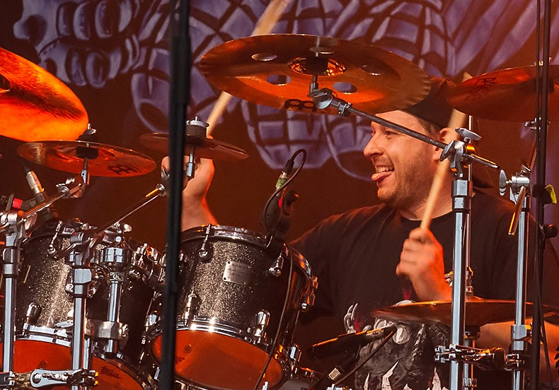 Makka, drummer of Sodom, performing live at With Full Force (2013).